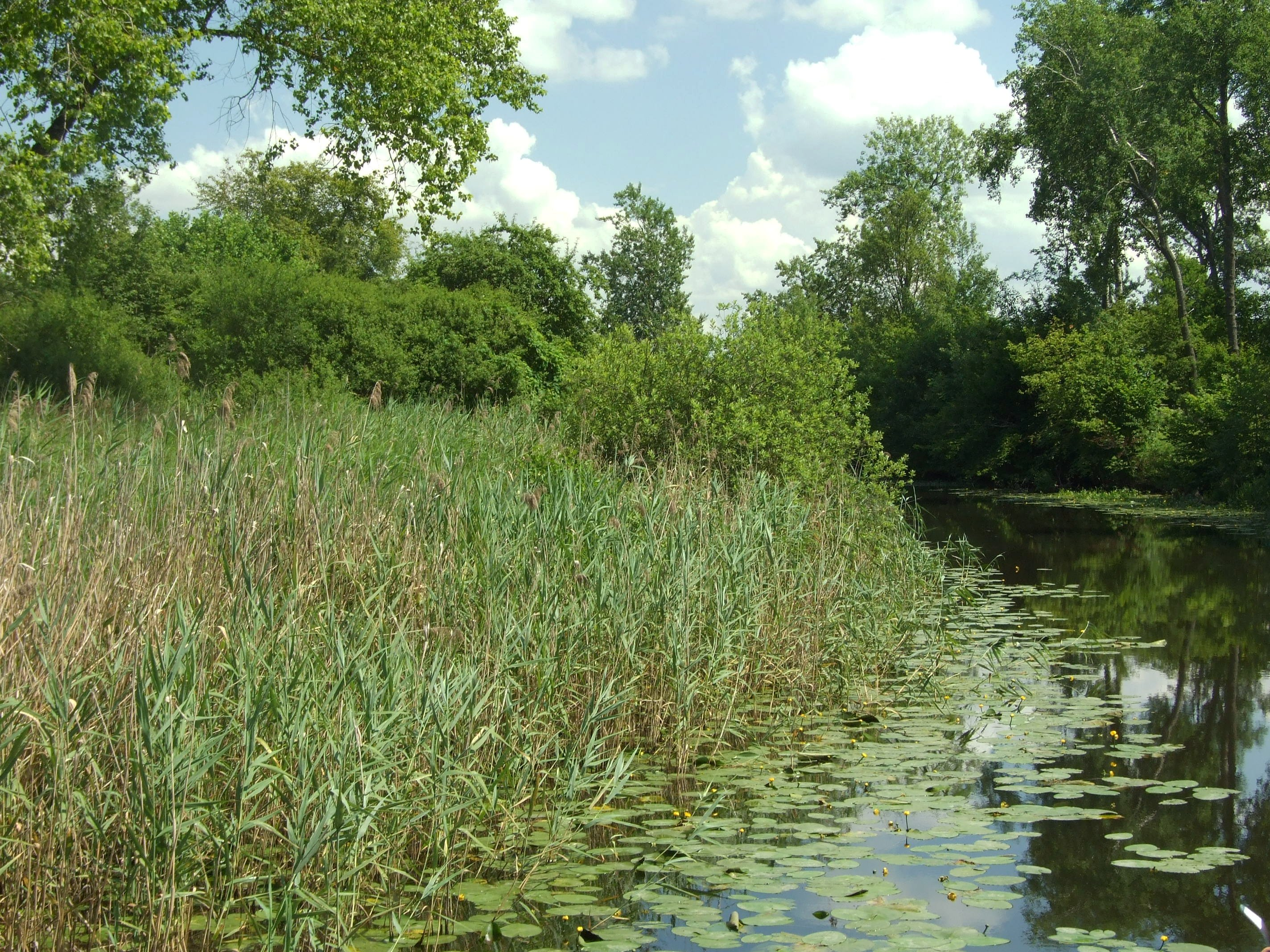 Elbląg-Ośtróda Canal near the town of Piniewo in Małyty direction, Poland